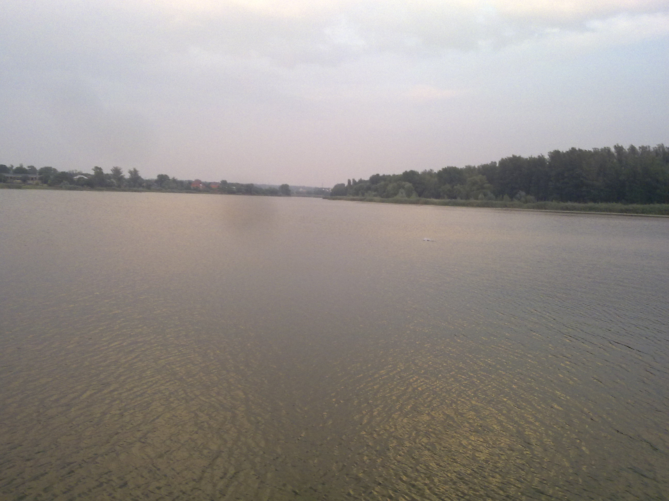 Rostovskoe More.